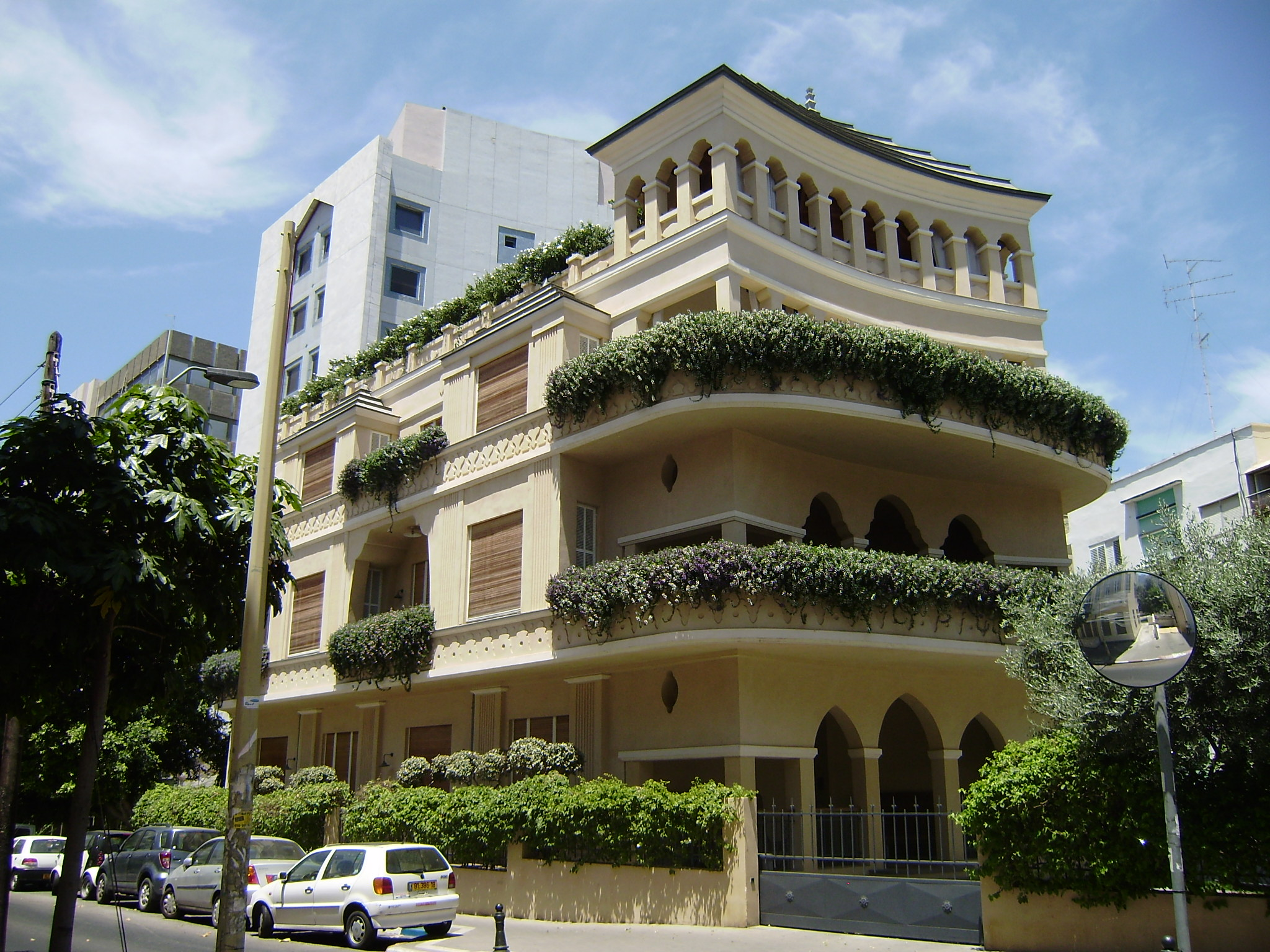 Pagoda house, Tel-Aviv, Israel.